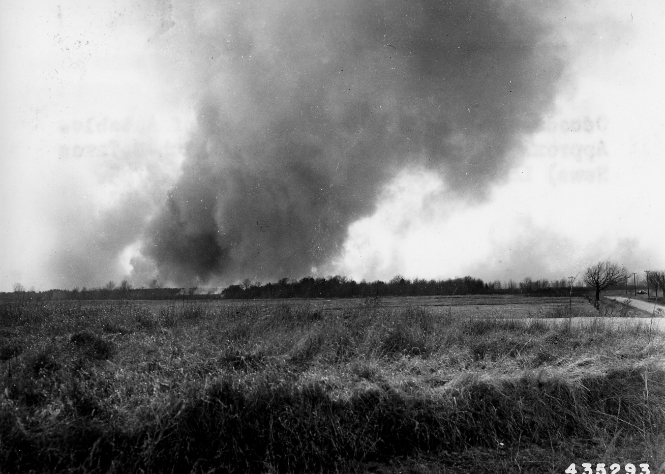 Scope and content: Original caption: Oscoda fire looking NW from town of AuSable. Approx time 4:30 PM. Lower Mich NF.